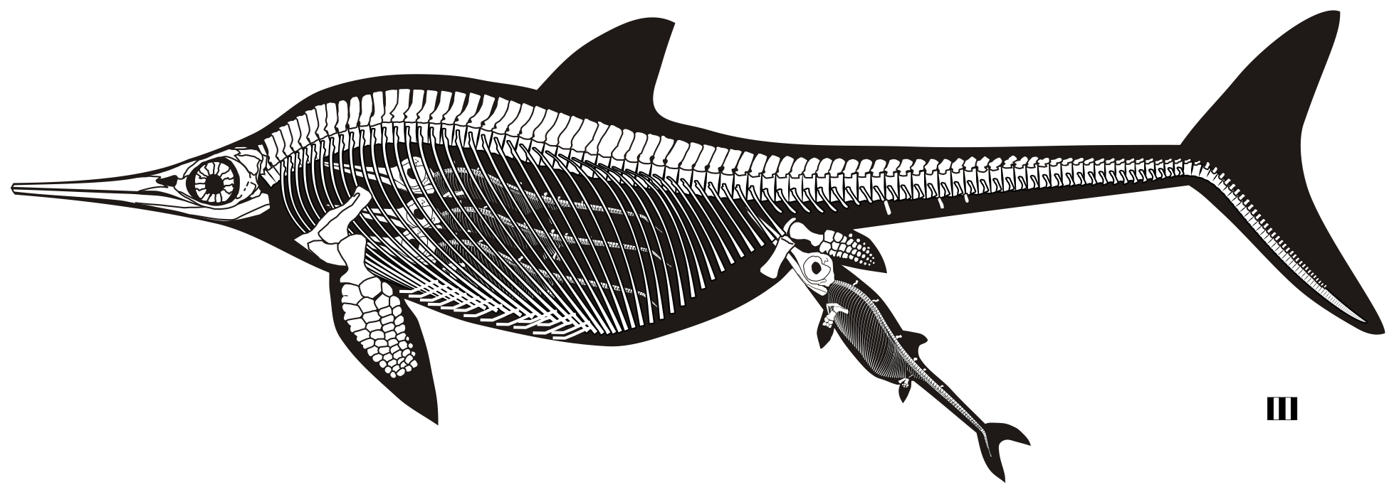 The derived ichthyopterygian Stenopterygius with one embryo in birth position and three in body cavity, reconstructed based on SMNS 6293 (Staatliches Museum für Naturkunde, Stüttgart, Germany). .